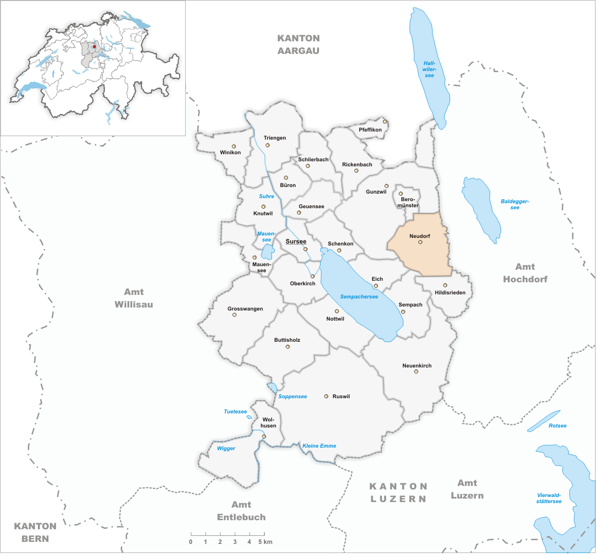 Municipality Neudorf